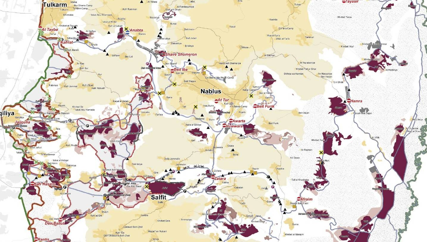 Piece of File:Westbankjan06.jpg which is a detailed map of Israeli settlements on the West Bank, January 2006. Produced by the United Nations Office for the Coordination of Humanitarian Affairs - public UN source. Map Centre